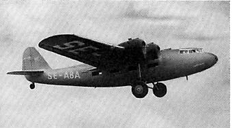 Fokker F.XXII from Swedish airliner ABA